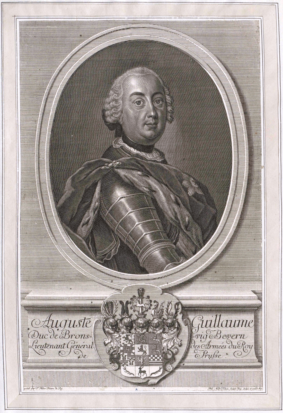 Portrait of Augustus William, Duke of Brunswick-Bevern (1715–1781)